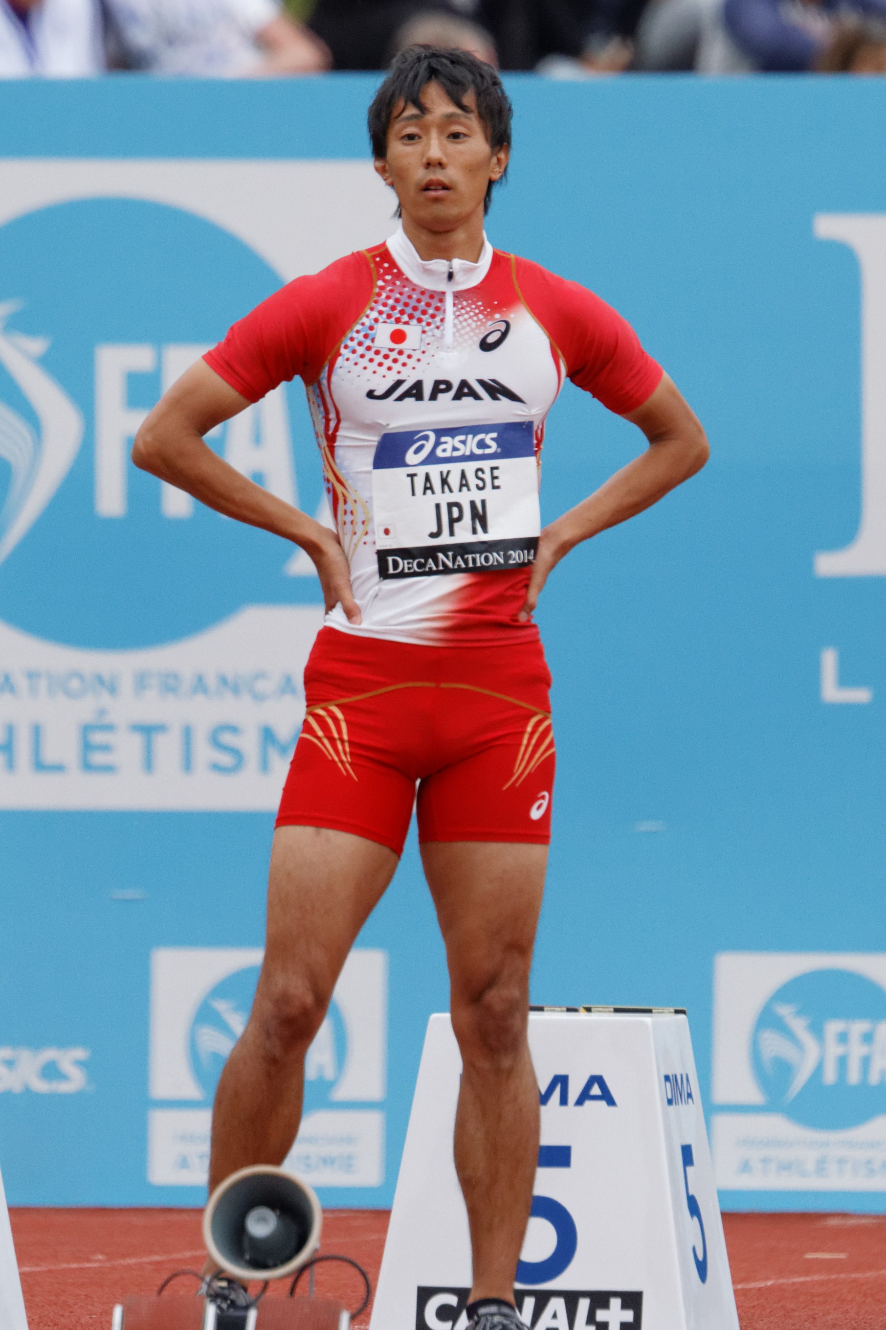 DécaNation 2014. 100m.